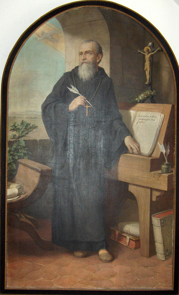 St. Benedict of Nursia writing the Benedictine rule, portrait in the church of Heiligenkreuz Abbey near Baden bei Wien, Lower Austria. Portrait (1926) by Herman Nieg (1849-1928)